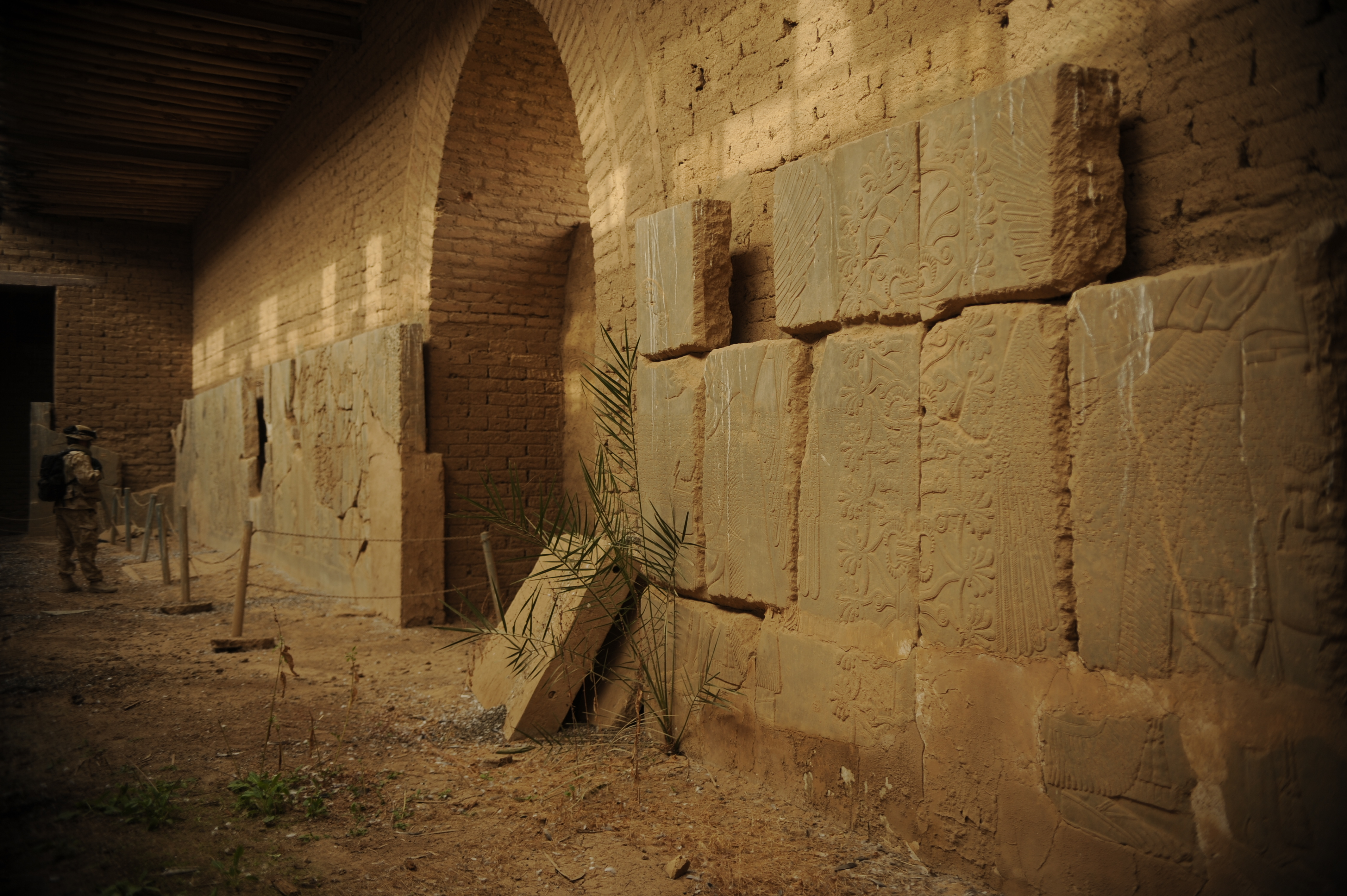 The remains of an original alabaster wall in what once was the Northwest palace in the ancient city of Calah, which is now known as Nimrud, Iraq, Nov. 19. Nimrud is in consideration by United Nations Educational, Scientific, and Cultural Organization to become a protected World Heritage site. UNESCO works to create the conditions for genuine dialogue based upon respect for shared values and the dignity of each civilization and culture.